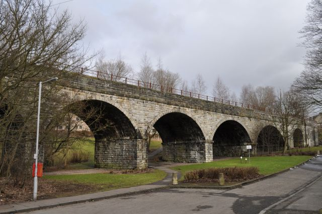 Old Railway Viaduct This viaduct carried the Dunfermline and Stirling Railway. The line closed in the late 1960s.